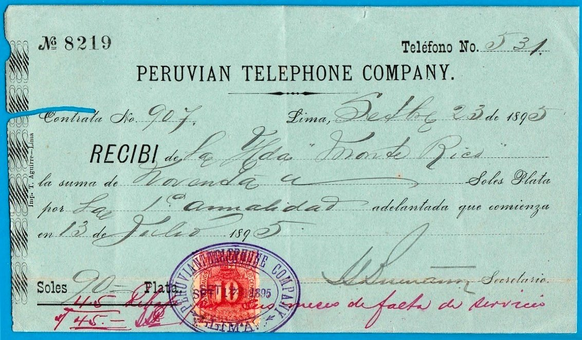 Peruvian Telephone Company receipt Lima 1895